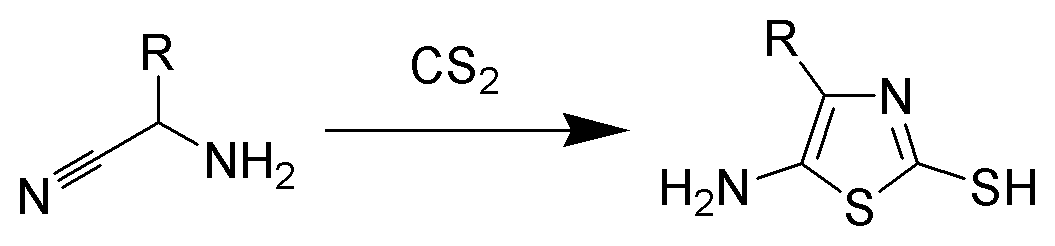 Reaction scheme of the Cook-Heilbron thiazole synthesis.